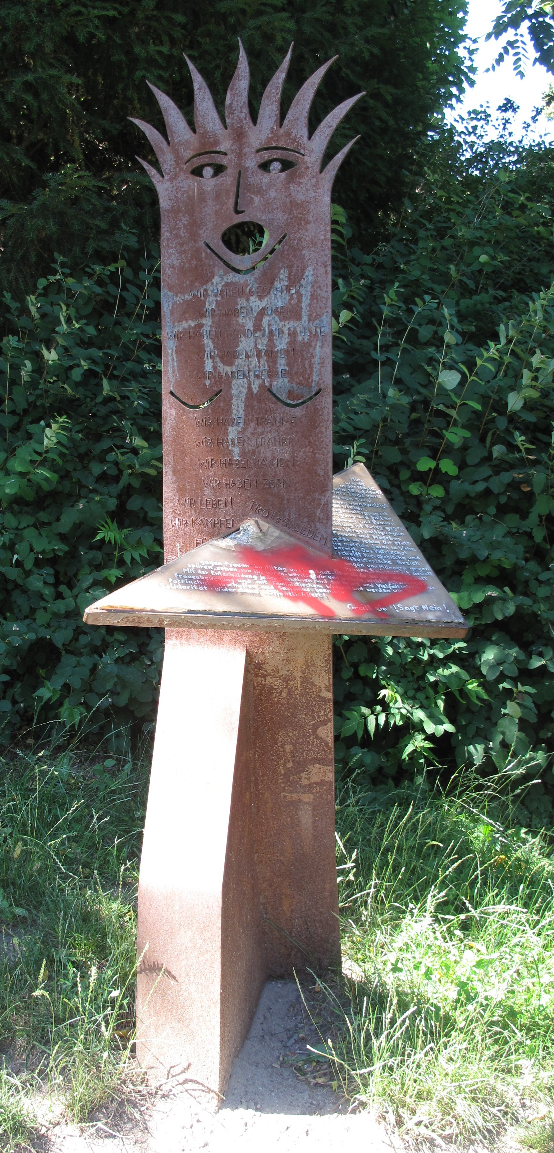 Wir haben Gesichter (german for: We have faces) is the name of a memorial, created in 2005, which is directed against rapes. It is situated in the Viktoriapark in Berlin-Kreuzberg and commemorates to the rape of a woman by two men in march 2002 at the place of the memorial.